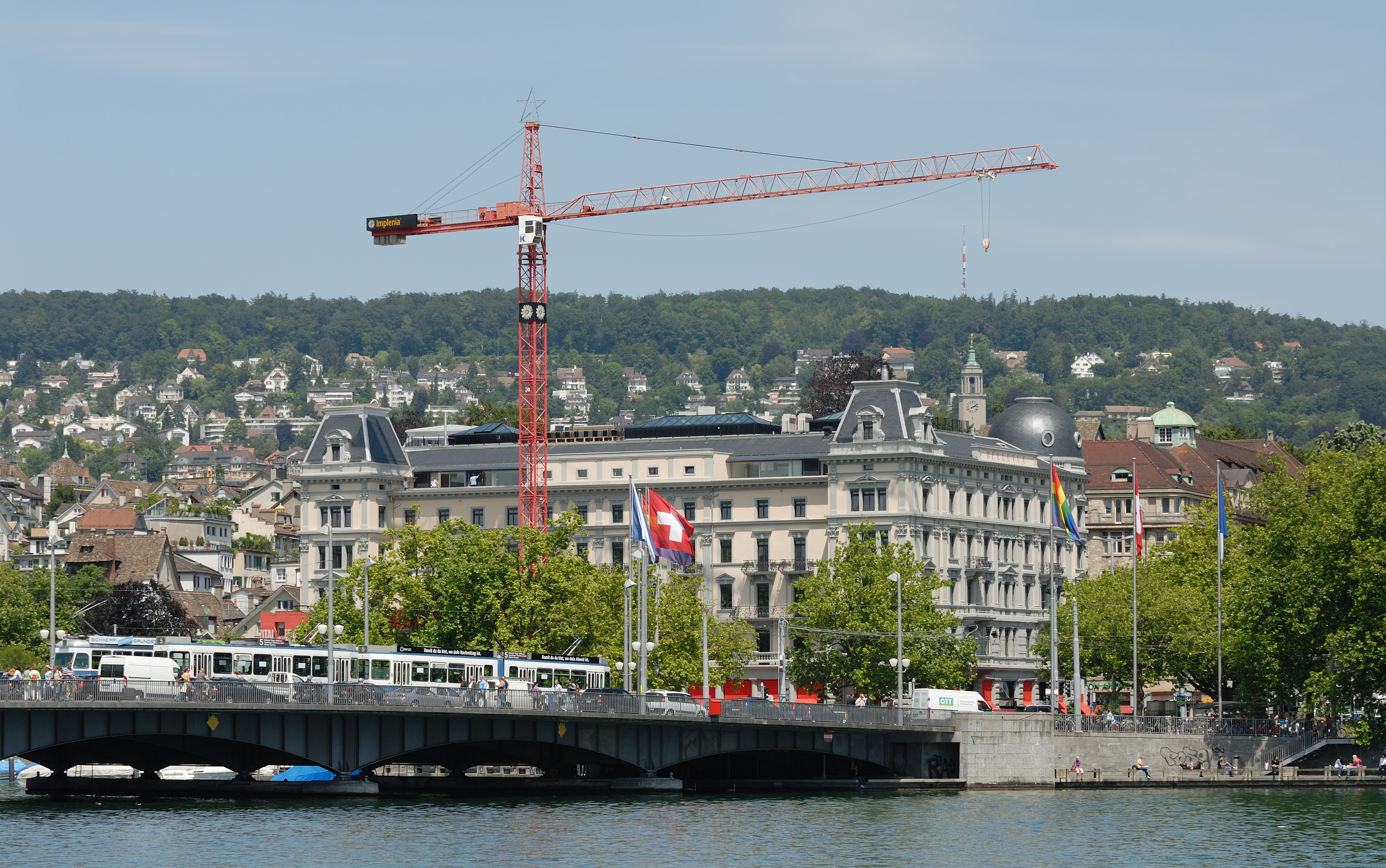 House Bellevue, formerly Grand Hotel Bellevue, Zürich. Reconstruction is nearing completion.